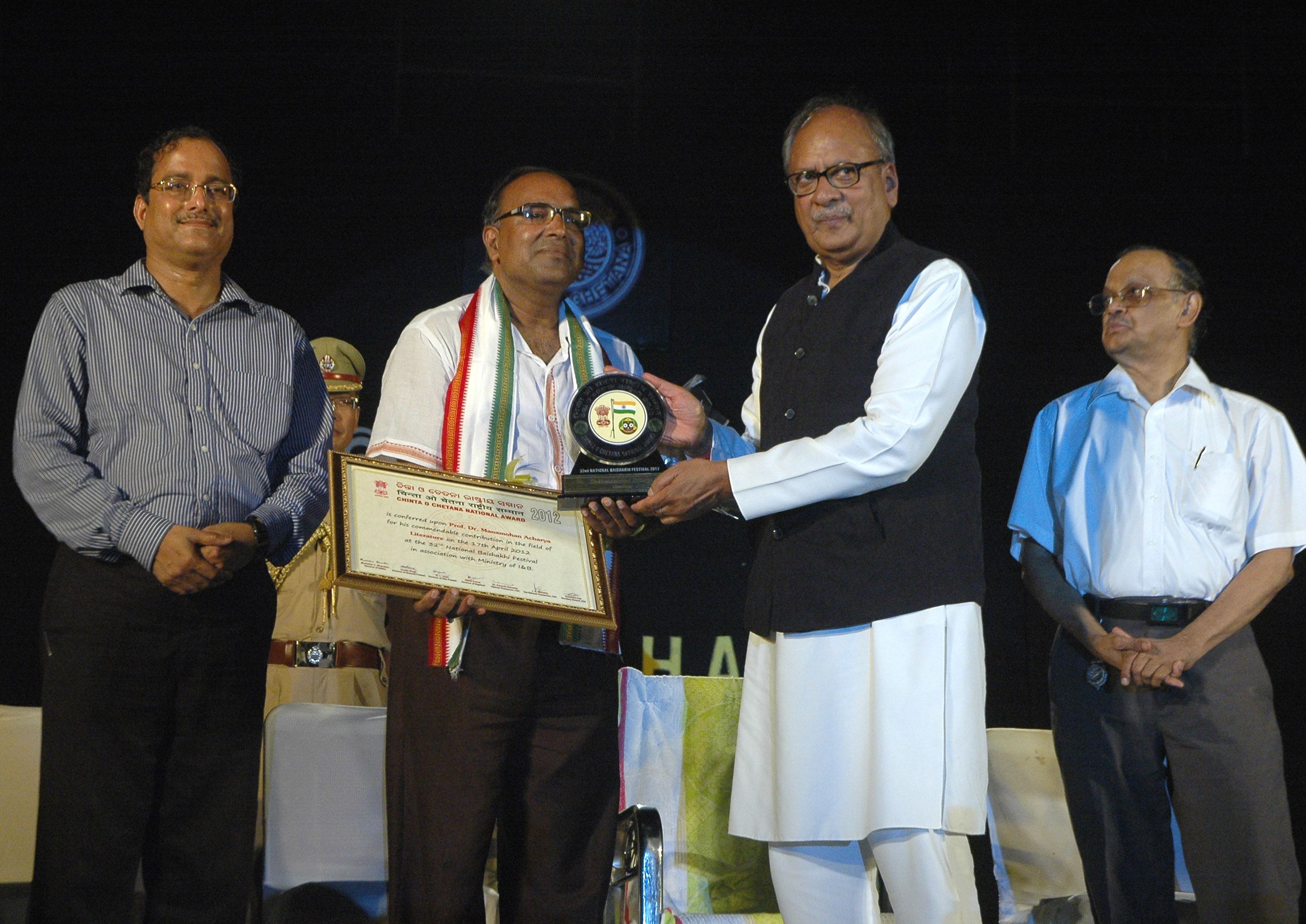 His Excellency Governor of Nagaland Sj. Nikhil Kumar ji conferred the Chinta Chetana National Award upon Vanikavi Dr. Manmohan Acharya on behalf of Chinta Chetana and Dept. of Information and Broadcasting, Government of India.